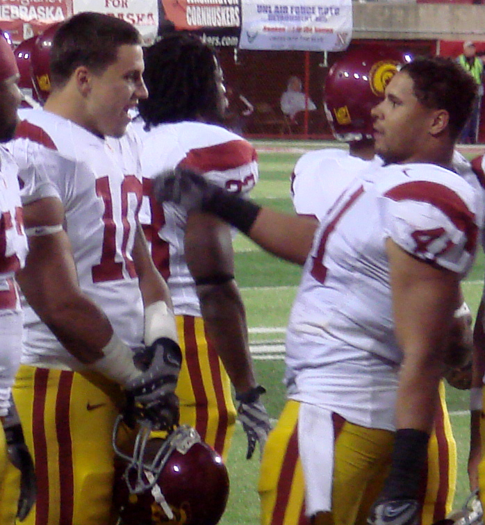 Linebackers Brian Cushing (#10) and Thomas Williams (#41) celebrates during the closing minutes of a USC victory over Nebraska.